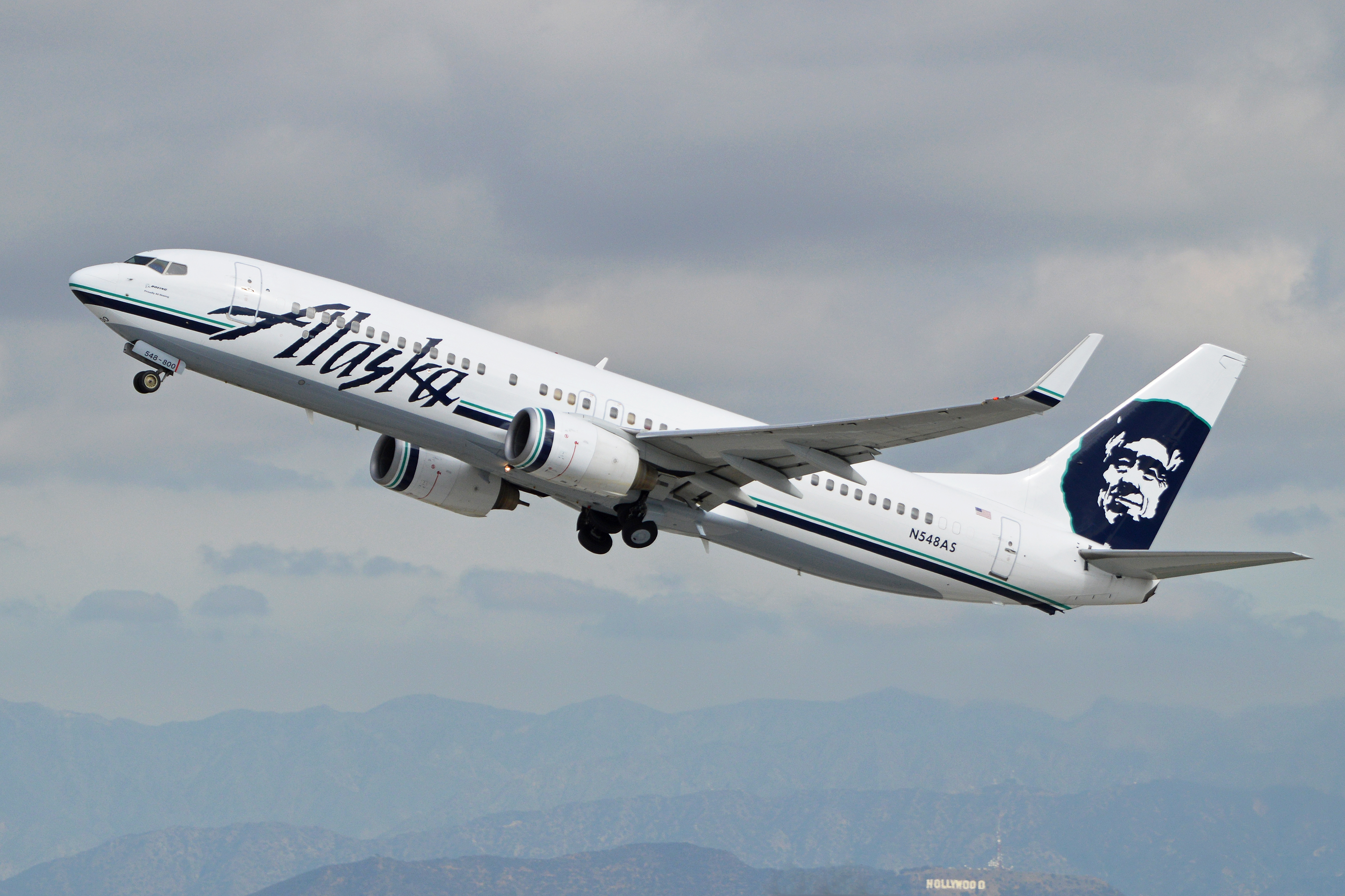 c/n 30020, l/n 1738. Built 2005. Seen departing LAX and taken from the Imperial Hill spotting location. Los Angeles, California, USA. 08-2-2014